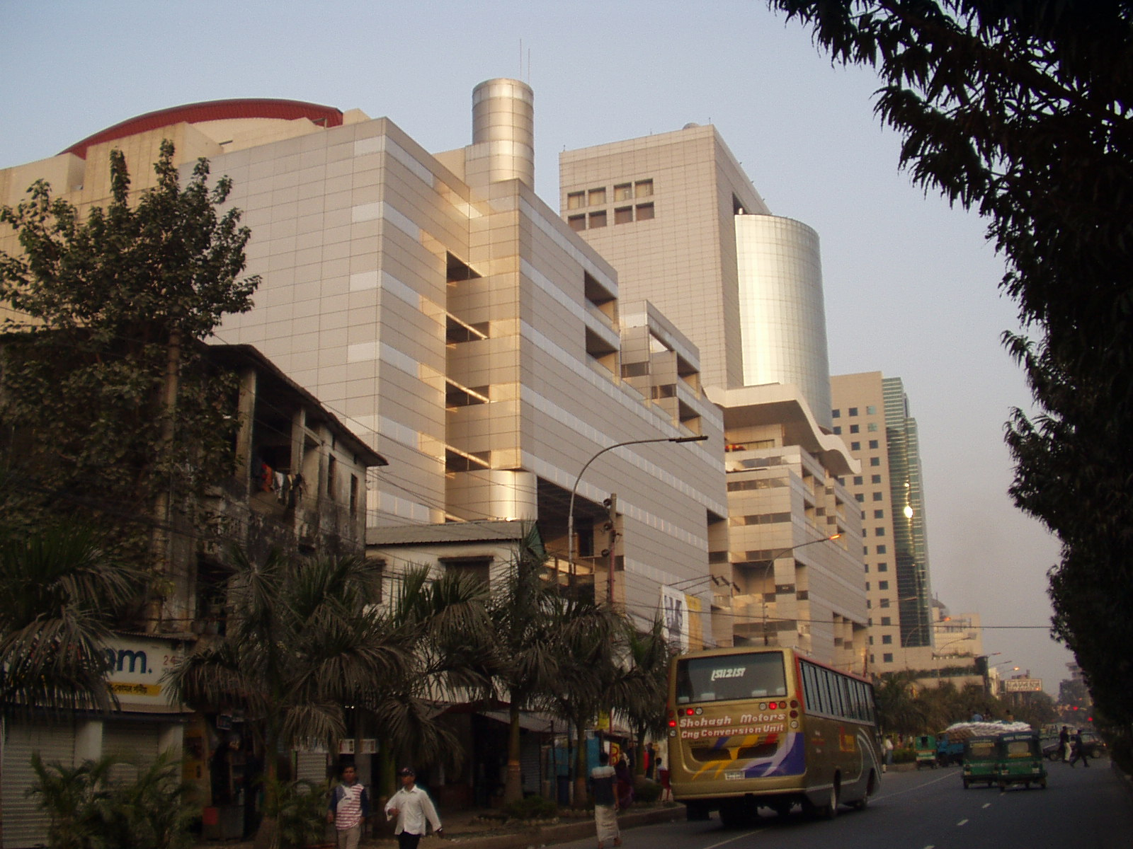 South Asian biggest Shopping Mall, Panthopath,Dhaka.-mamun2a